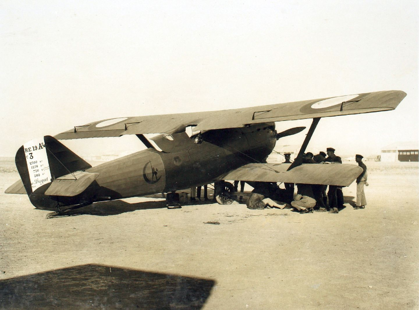 George Pelletier d'Oisy's Breguet Bre.19 No.3 at Hinaidi, en route to China in 1924. (This a/c crashed at Shanghai on 20 May 1924)